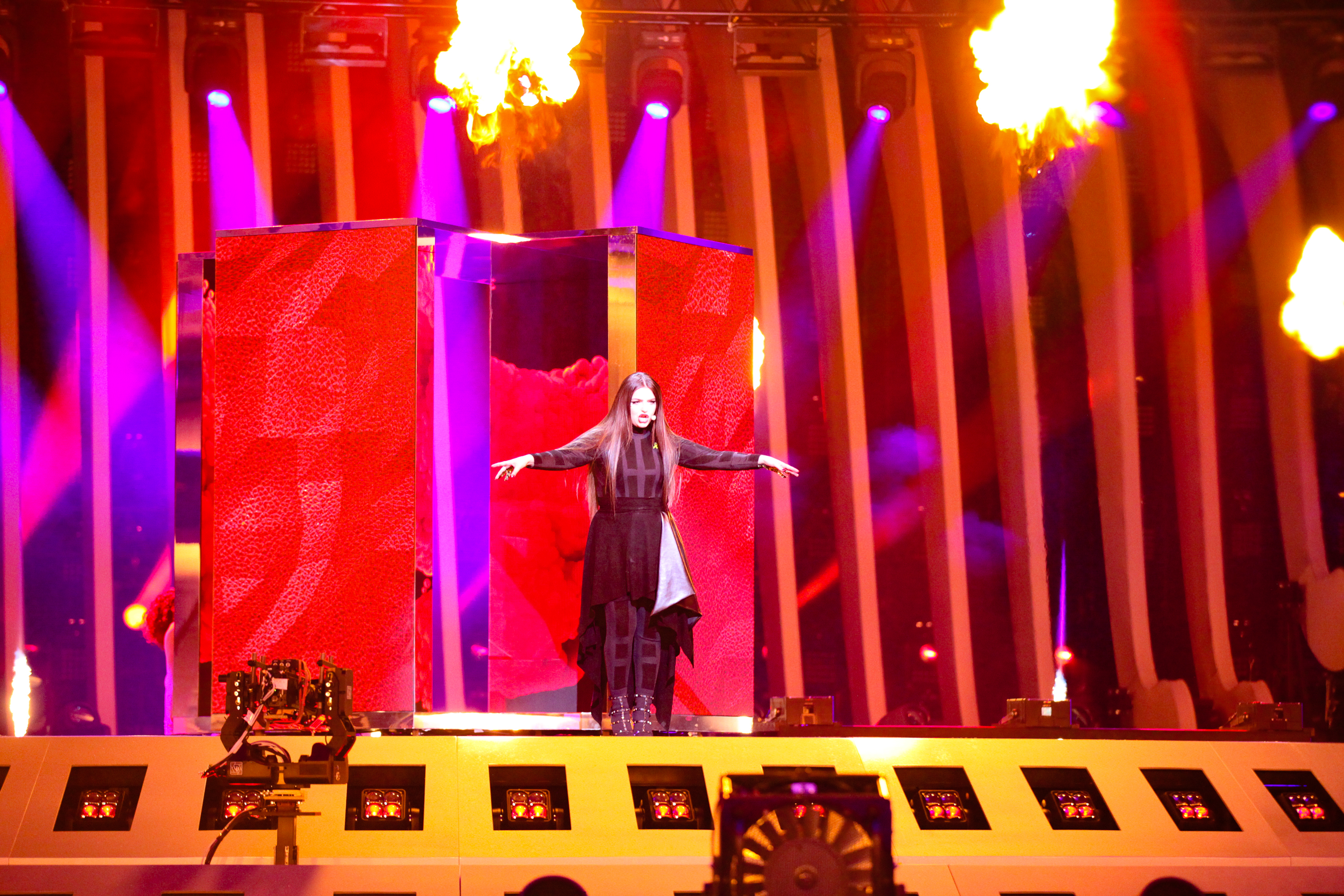 Christabelle representing Malta with the song "Taboo" during a rehearsal before the second semi final of the Eurovision Song Contest 2018 in Lisbon.